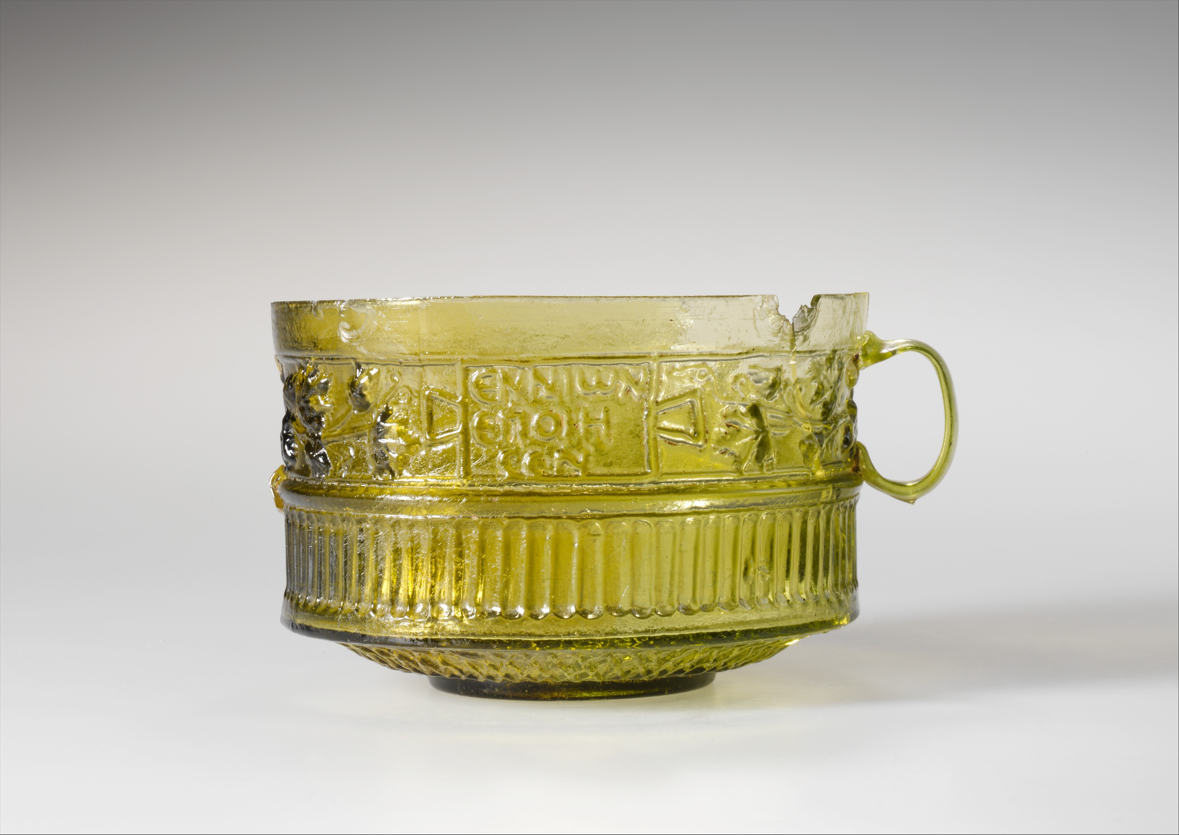 Roman; Ennion cup; Glass